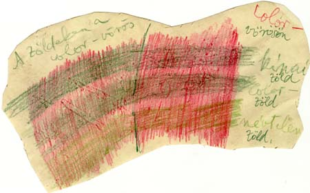 When Ilka Gedő created a painting, the mixing of colours did not occur in a random manner, but by looking for a given colour and/or colour hue that in the artist’s mind was required at the given moment. The colour hues and colour variations of a given basic colour were selected by basic colours and put into separate boxes. By colour patterns (the artist’s expression) the artist meant small pieces of scrap or cardboard, not seldom pieces of canvas, that served as a trial for various colour combinations.